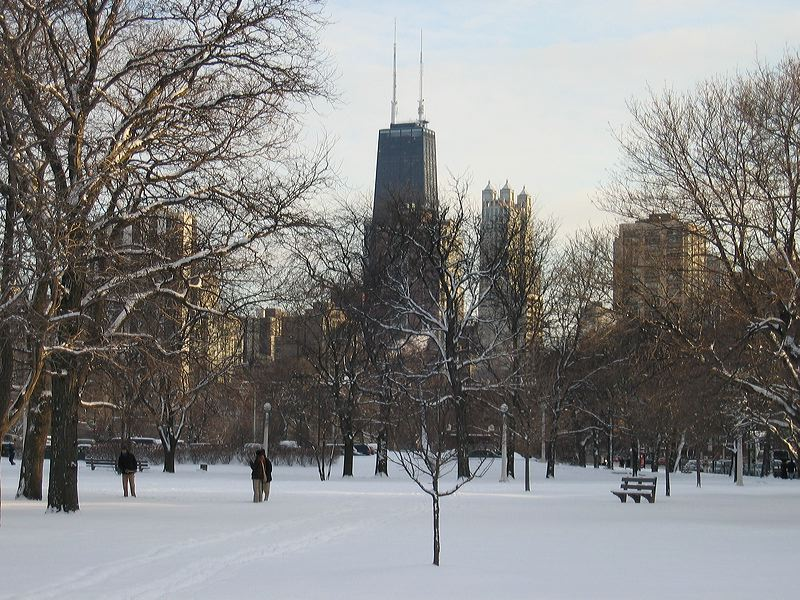 Lincoln Park, Chicago, Illinois.